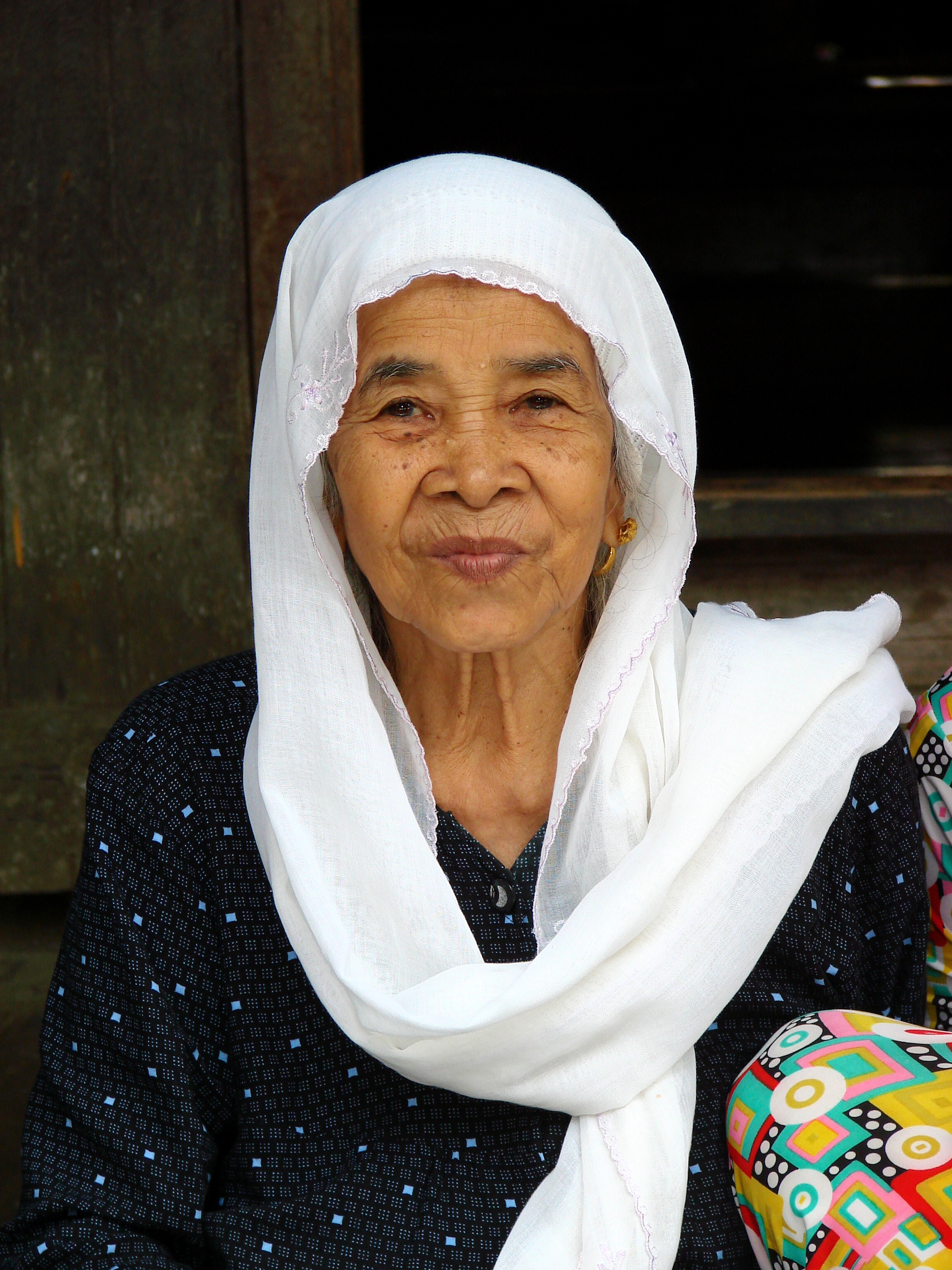 Muslim Cham woman, village near Chau Doc, Mekong delta, Vietnam. July 2009.